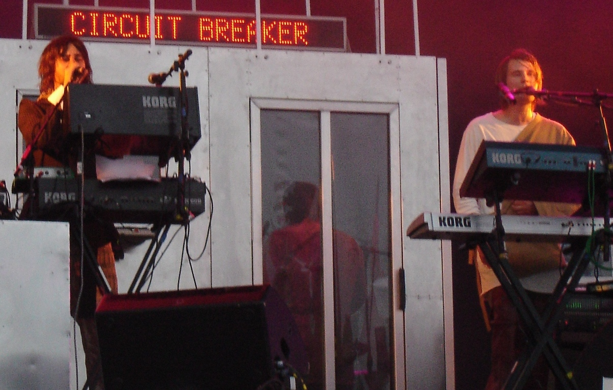 Röyksopp, at Glastonbury Festival (2005)